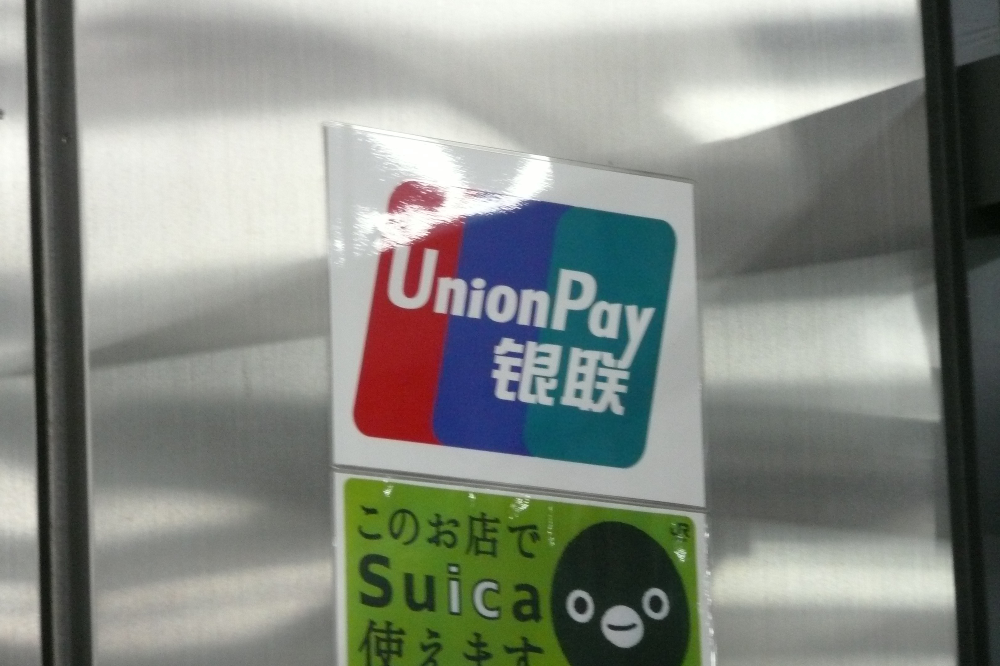 UnionPay